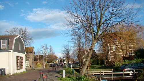 Knollendam East